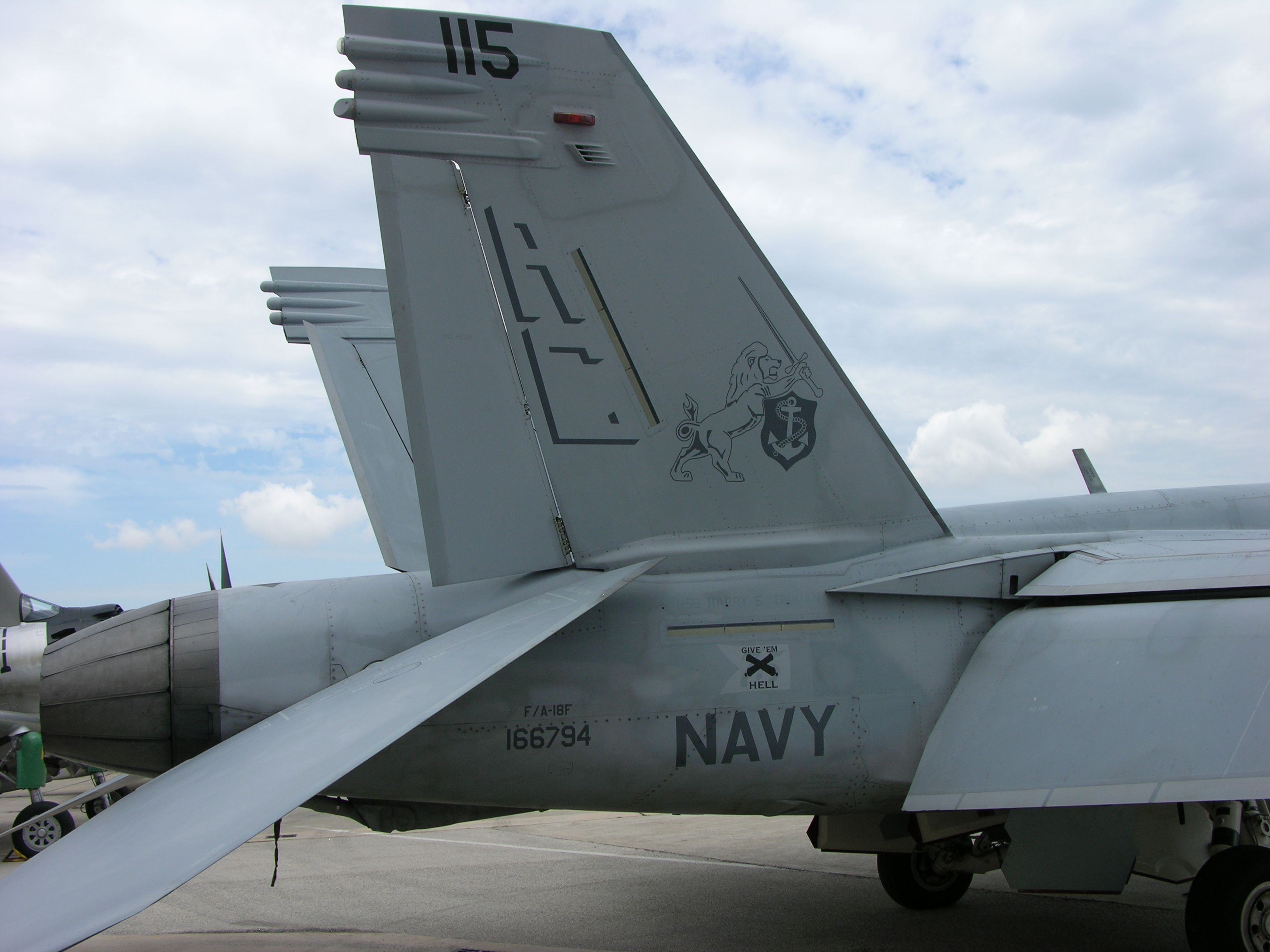 Shot of the tail showing the "Give 'em Hell" motto.